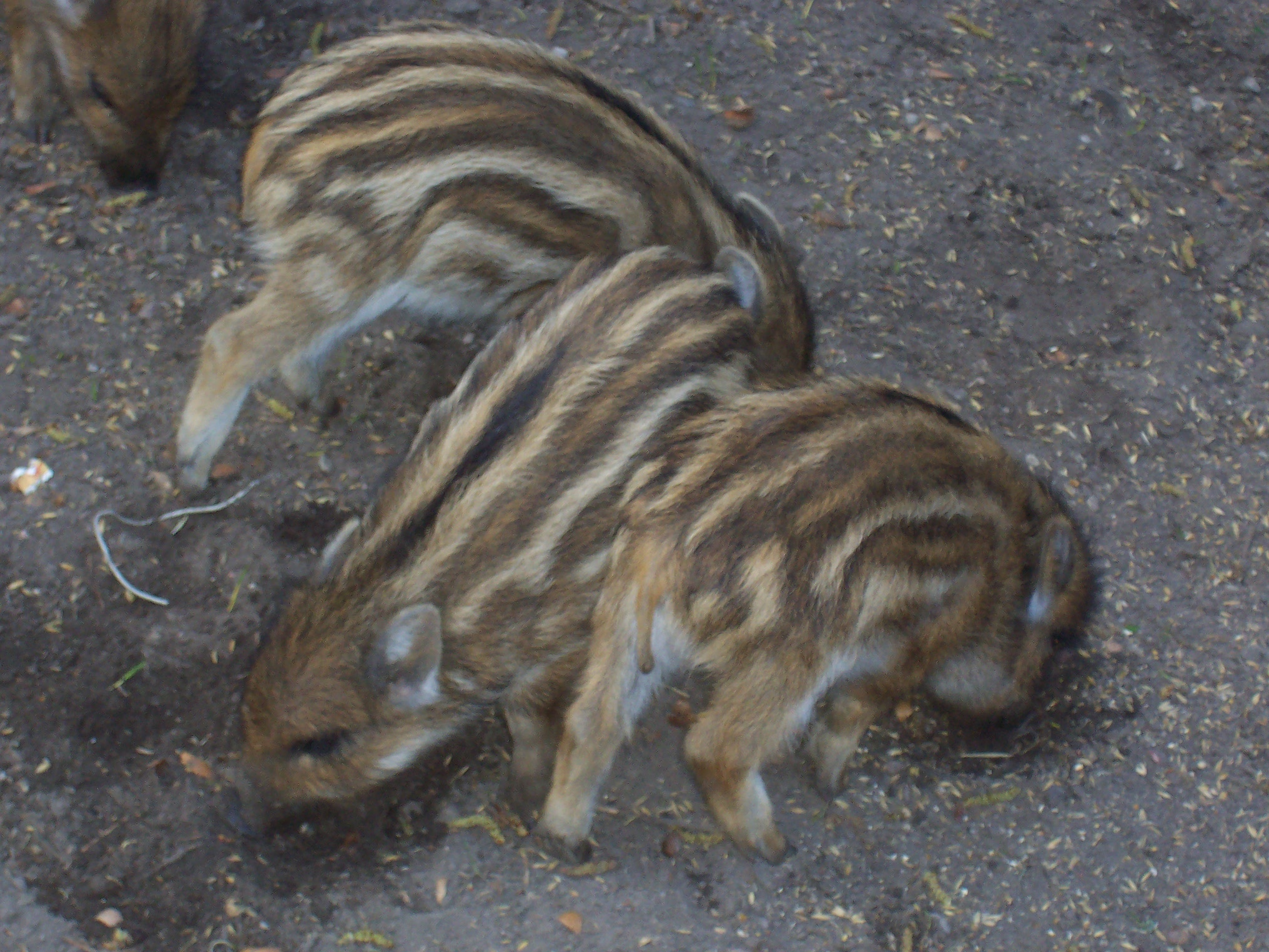 Wild boar in the wisent-reserve in Białowieża/Poland